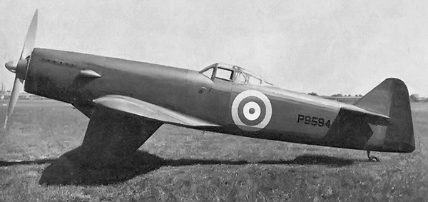 Martin-Baker M.B.2 prototype during its flight tests.